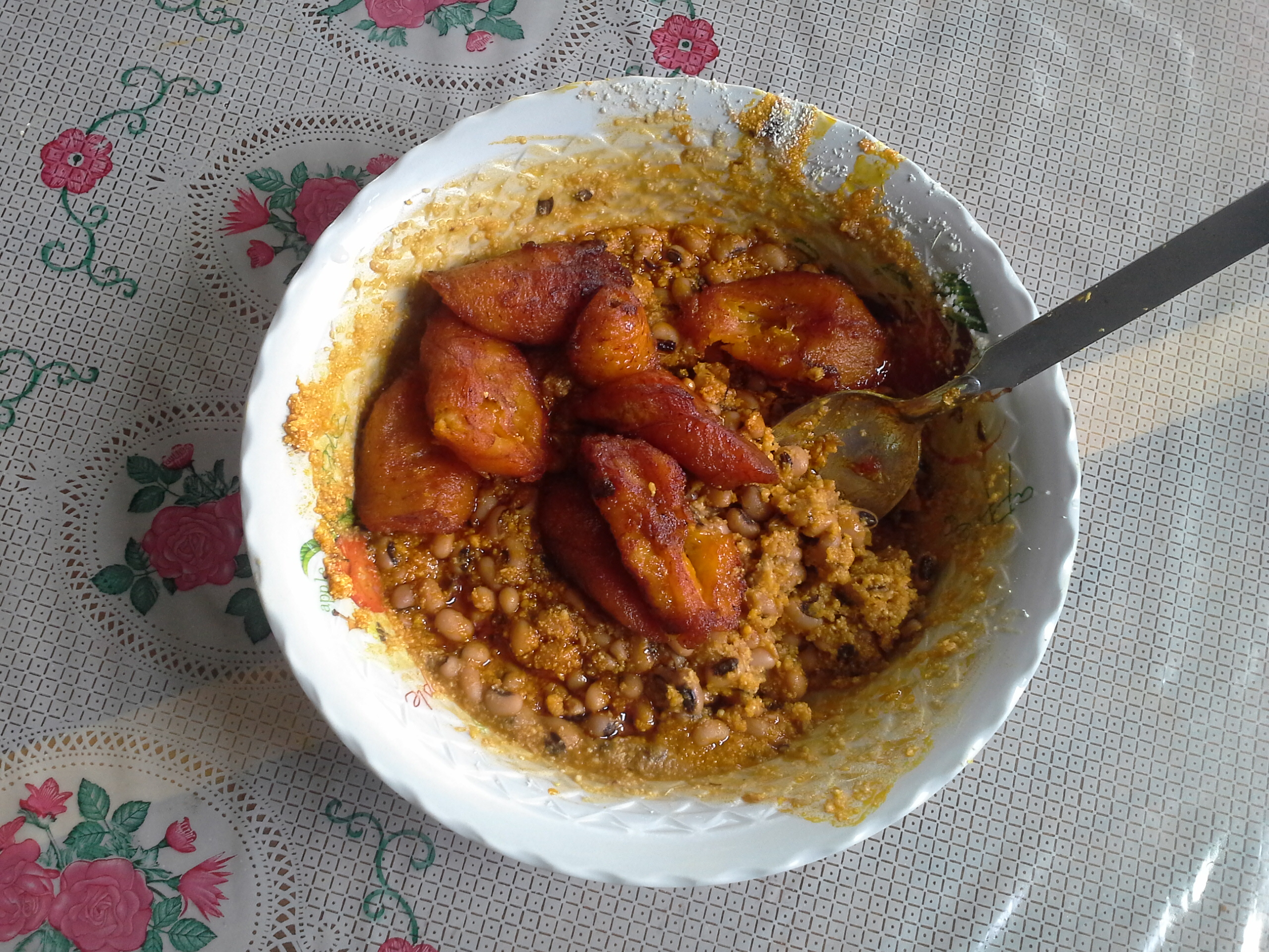 Beans, Palm oil, Gari and Fried Plantains. This is an image of food from Ghana